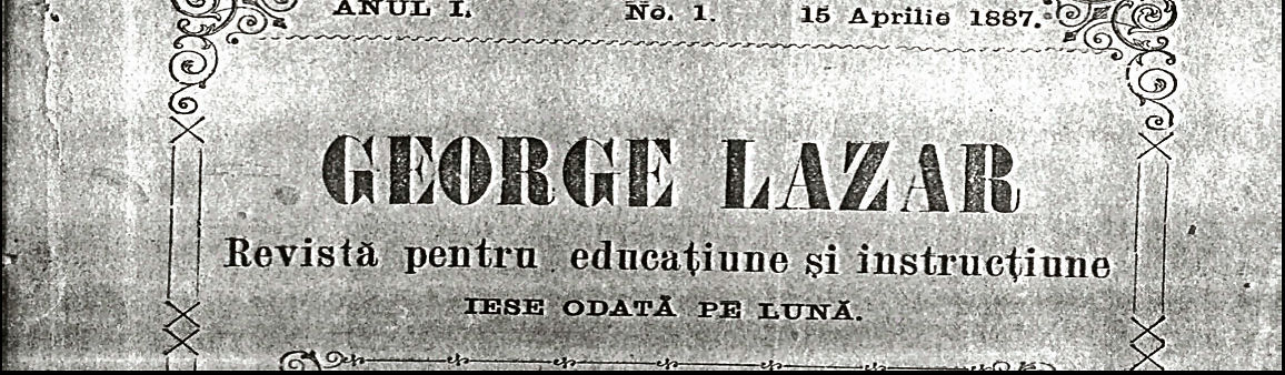 Logo of the Romanian newspaper Bârladul, as used in 1887